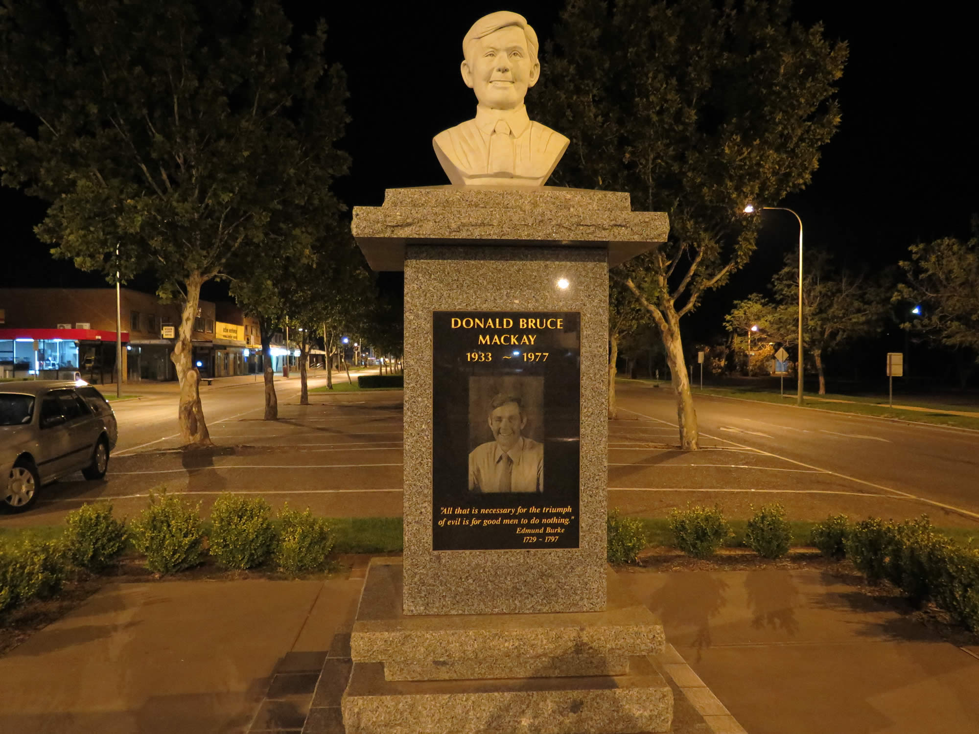 A photograph of the Donald Mackay memorial.